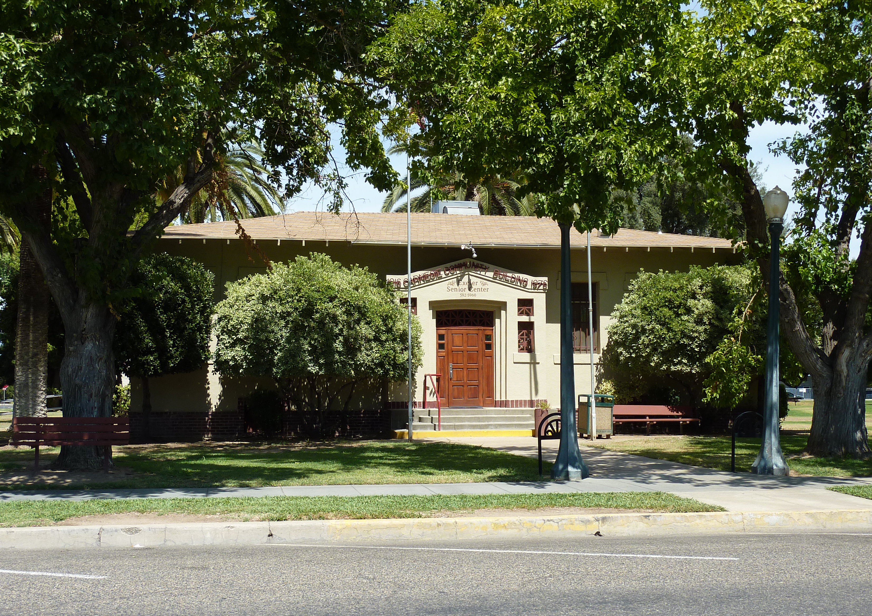 Exeter Public Library building, now the Exeter community center — in Exeter (east of Visalia), Tulare County, central California. A 1914 Carnegie library in California.